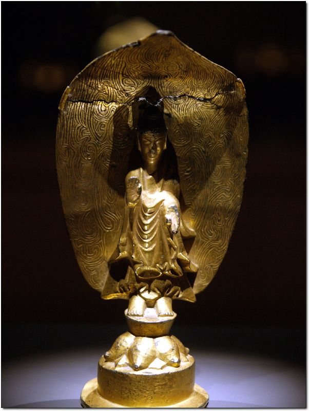 Standing Gilt-bronze Buddha with Inscription of the Seventh Yeonga Year.(National Treasures No.119 of South Korea) Gilt-bronze Buddha. One of South Korea's national treasures and one of the earliest extant sculptures from the country.